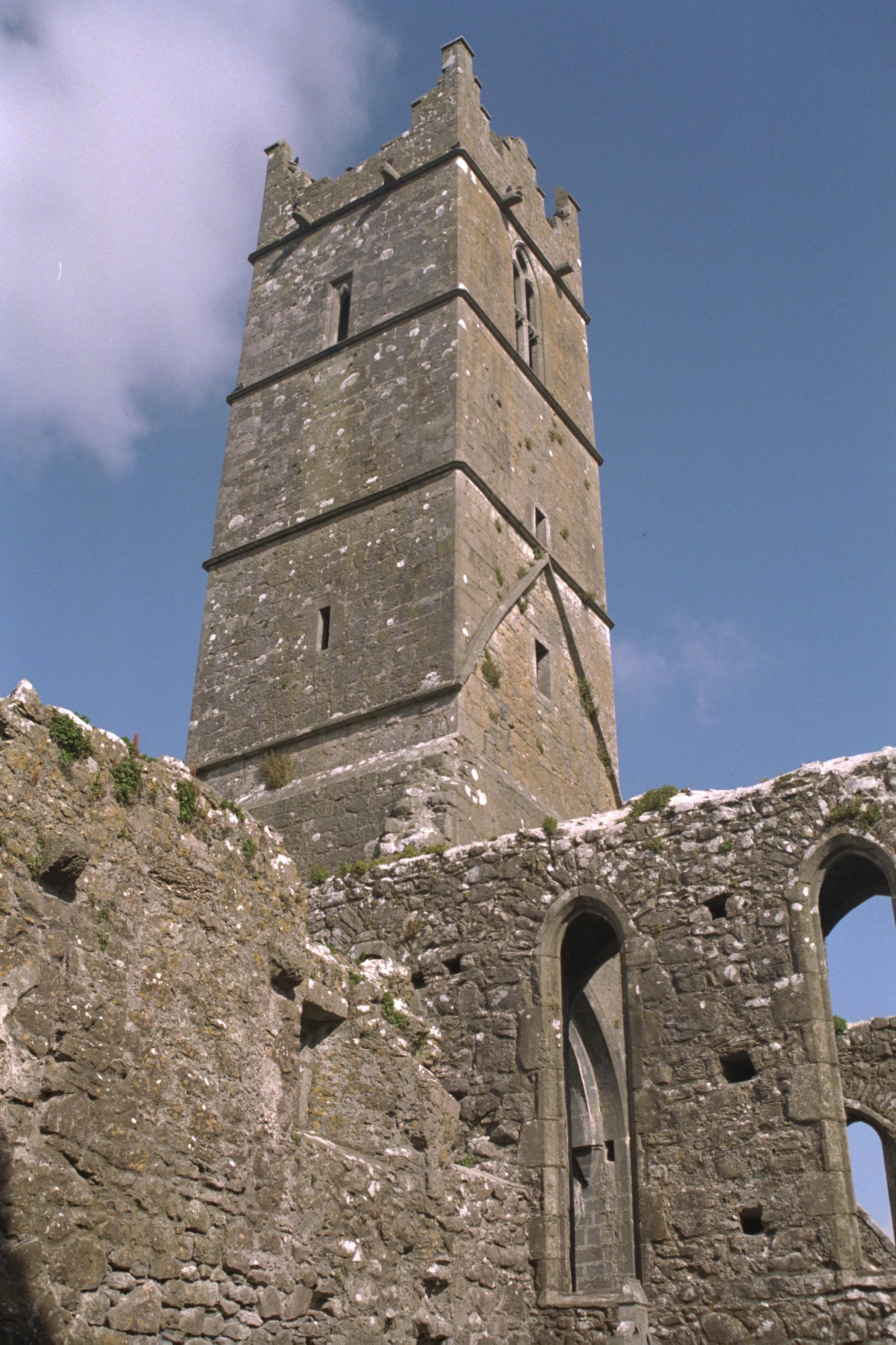 Claregalway Friary, County Galway, Ireland South East view of the tower